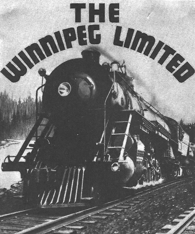 Photo of a ticket envelope from the Great Northern train "Winnipeg Limited".